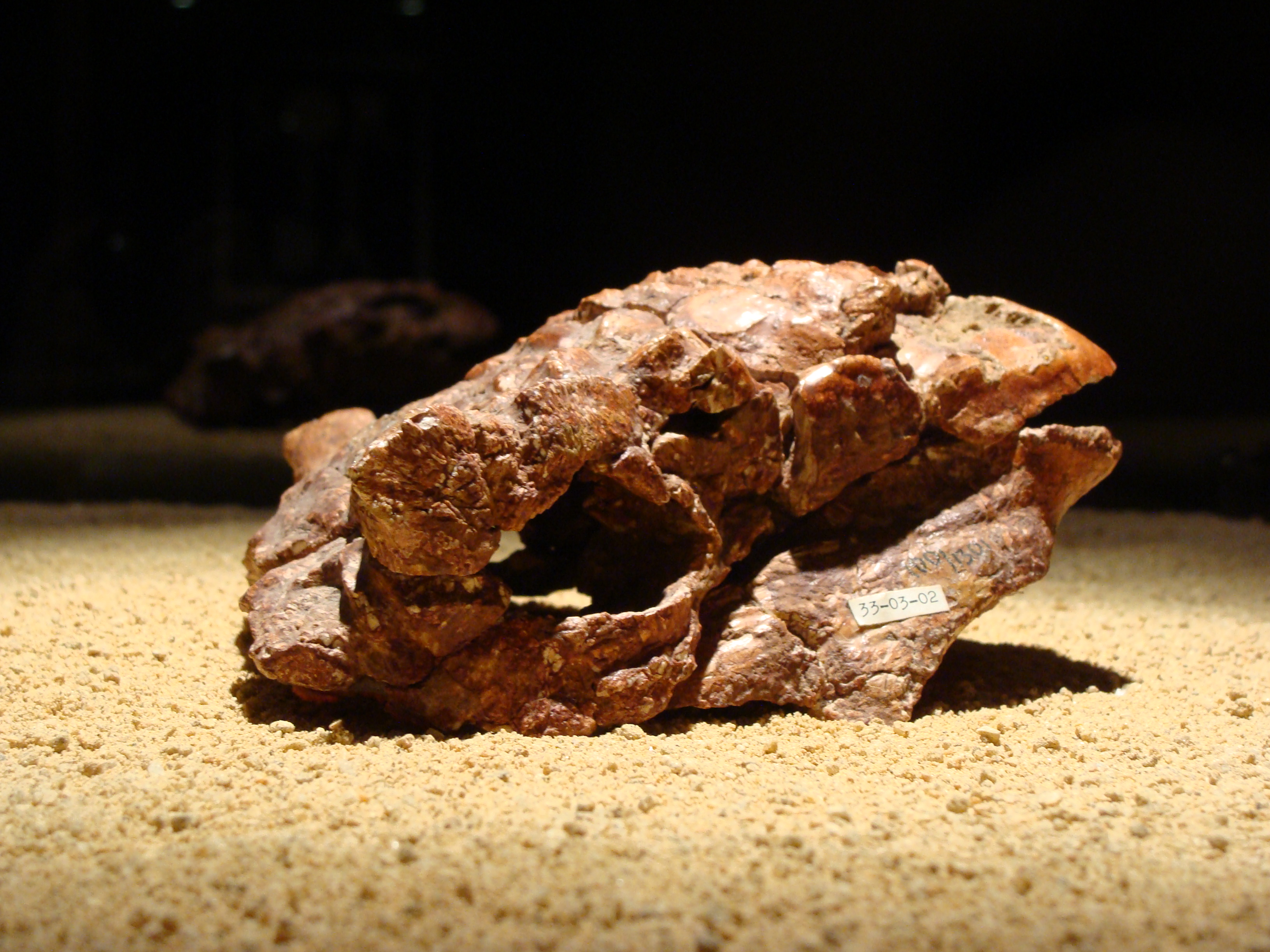 Pinacosaurus grangeri in the exhibition "Dinosaures. Tresors del desert de Gobi" ("Dinosaurs. Treasures of Gobi Desert") in CosmoCaixa, Barcelona.